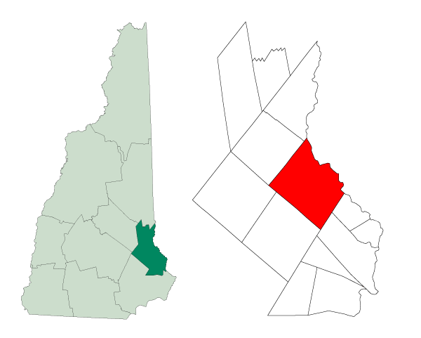 Created from Boundary/Border Outline Files of the Libre Map Project which held a BY-SA creative commons license. Data origionally from 2000 US Census boundary data.